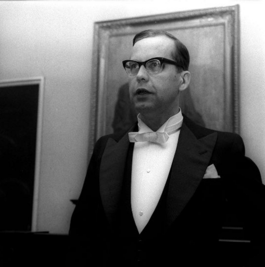 Photograph of the Finnish lawyer Heikki Jokela (1917–2001) on the day of his disputation at Helsinki University.